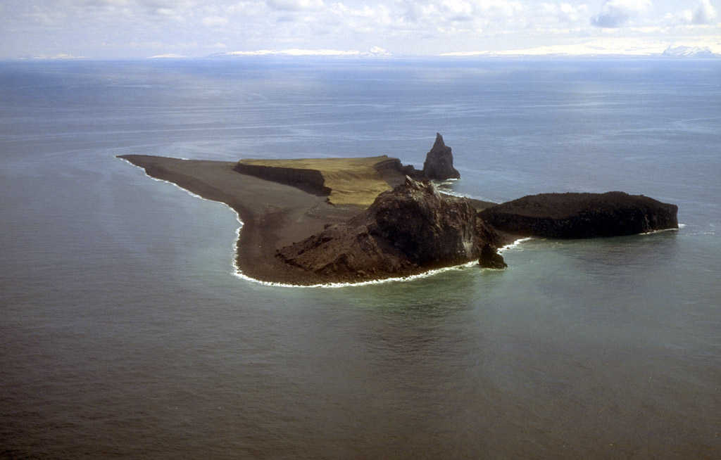 Aerial view, looking south, of Bogoslof Island, which is the summit of a largely submarine stratovolcano located in the Bering Sea 50 km (31 mi) behind the main Aleutian volcanic arc. The island is about 1.5x0.6 km (1x.4 mi) and, due to energetic wave action and frequent eruptive activity, it has changed shape dramatically since first mapped in the late 1700s. Its most recent eruption, in 1992, produced the conical, rubbly lava dome (150 m [492 ft] high)and offshore spire at bottom center.